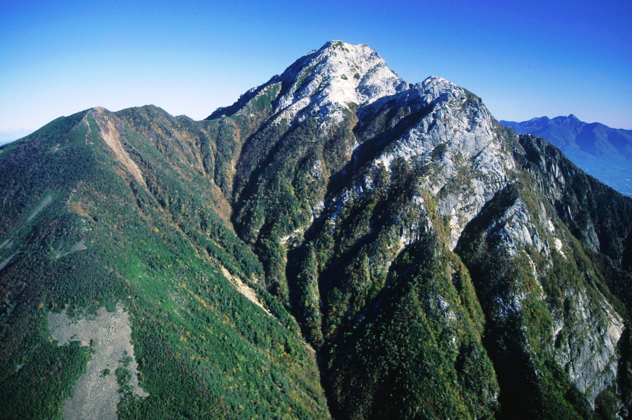 Mount Kaikoma and Marishiten seen from Mount Kurisawa in Akaishi Mountains, Japan.